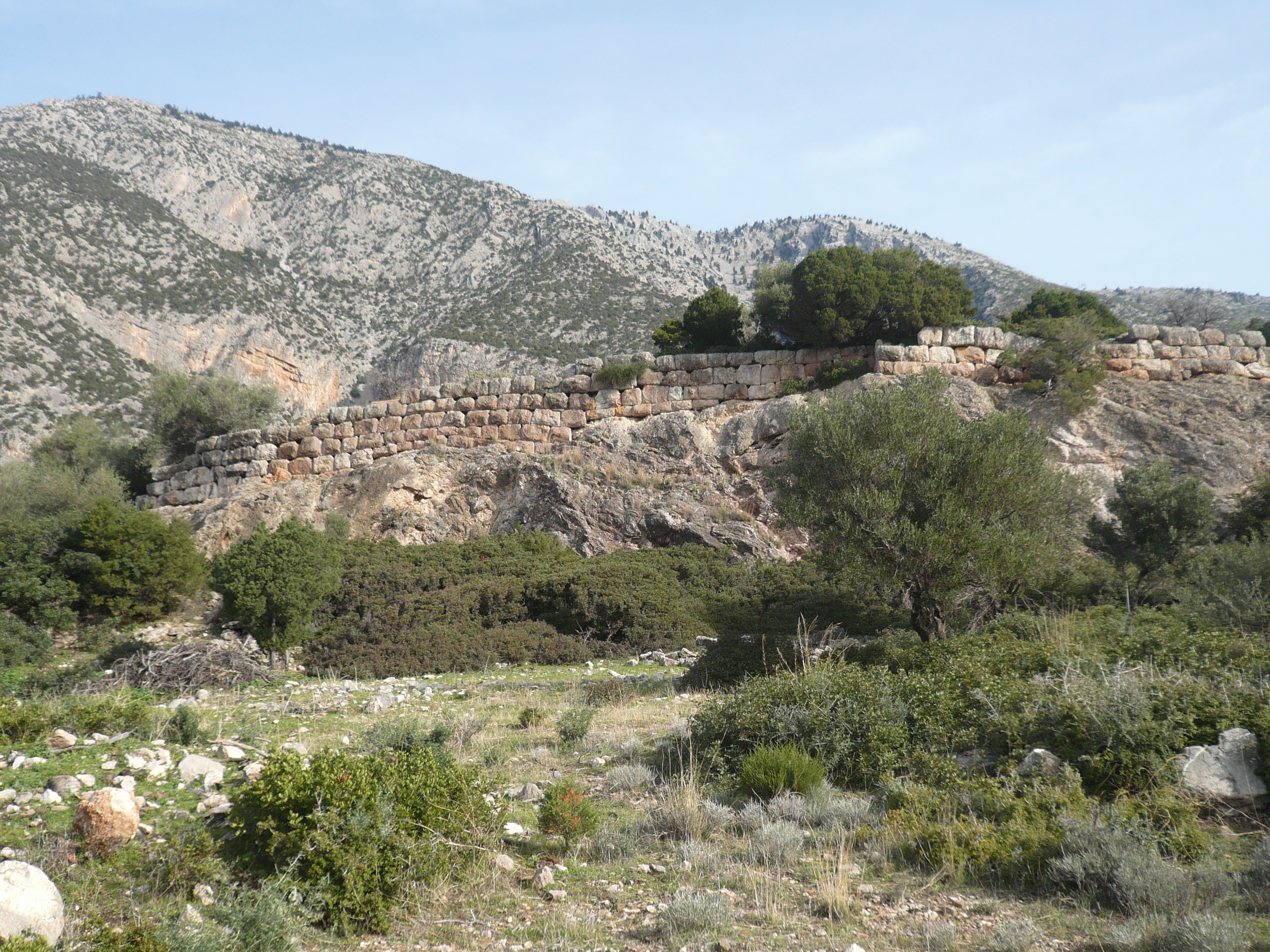 Acropolis of Voulida, Boeotia, Greece